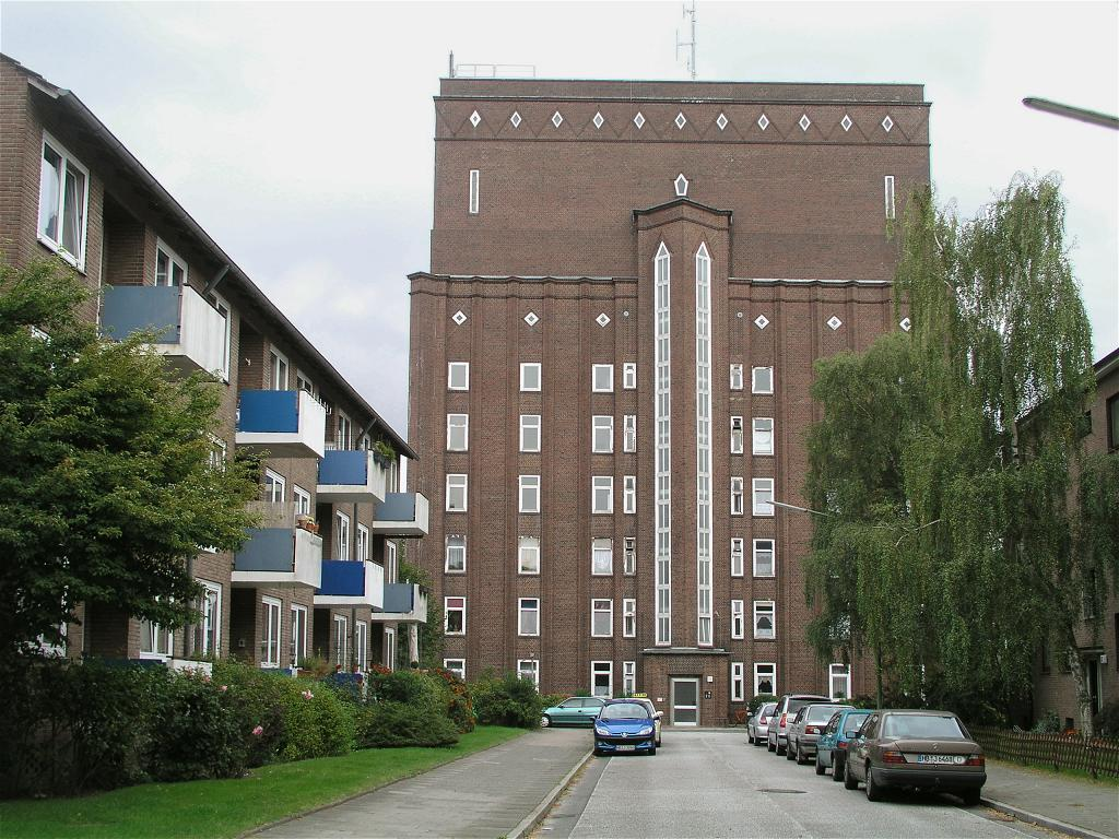 Bremerhaven, Germany: Watertower with appartments, photo 2006